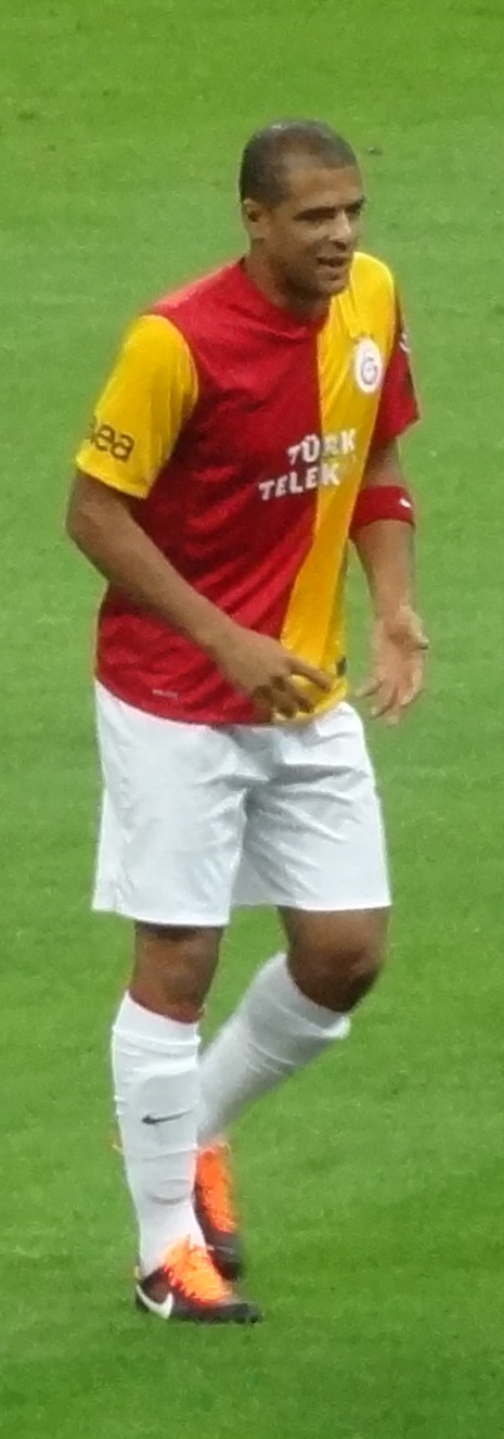 melo scored 35 m goal against samsun on this match